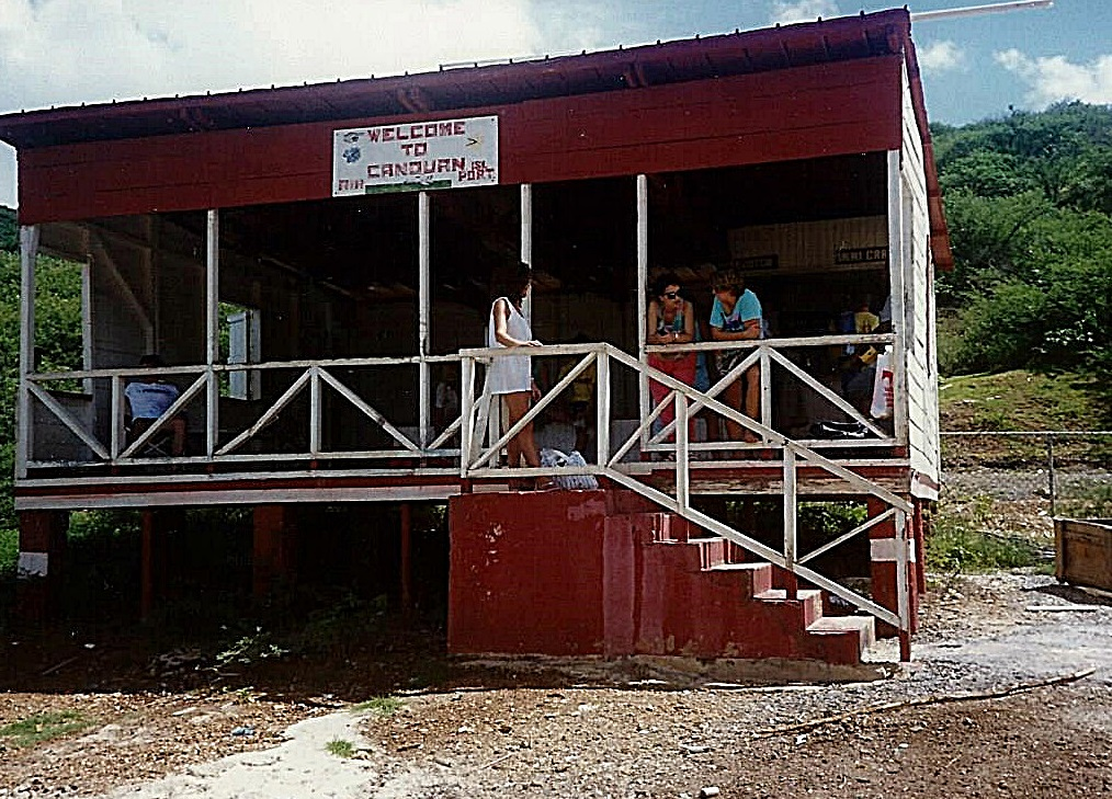 Canouan Airport original terminal building